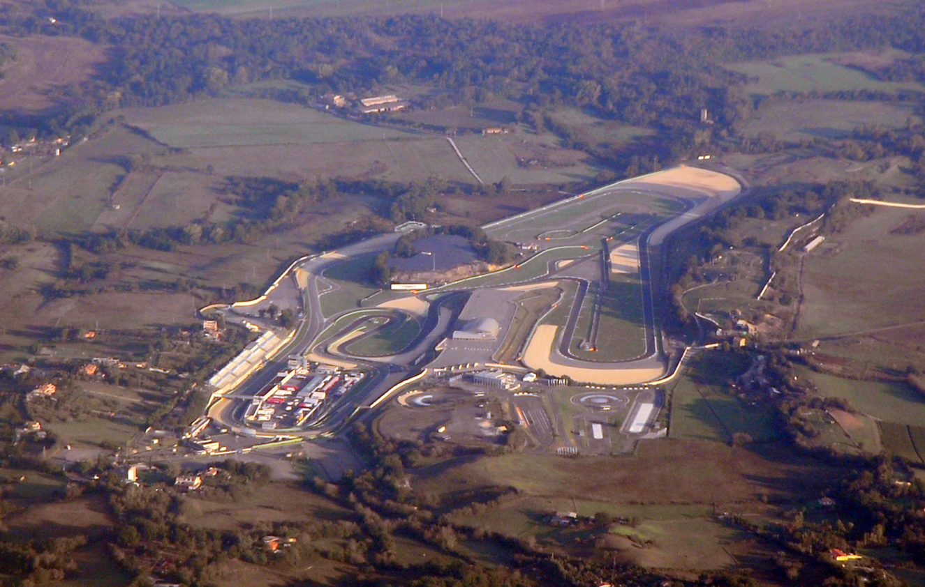 The Autodromo Vallelunga Piero Taruffi, a racing circuit situated 20 miles (32 km) north of Rome, Italy.